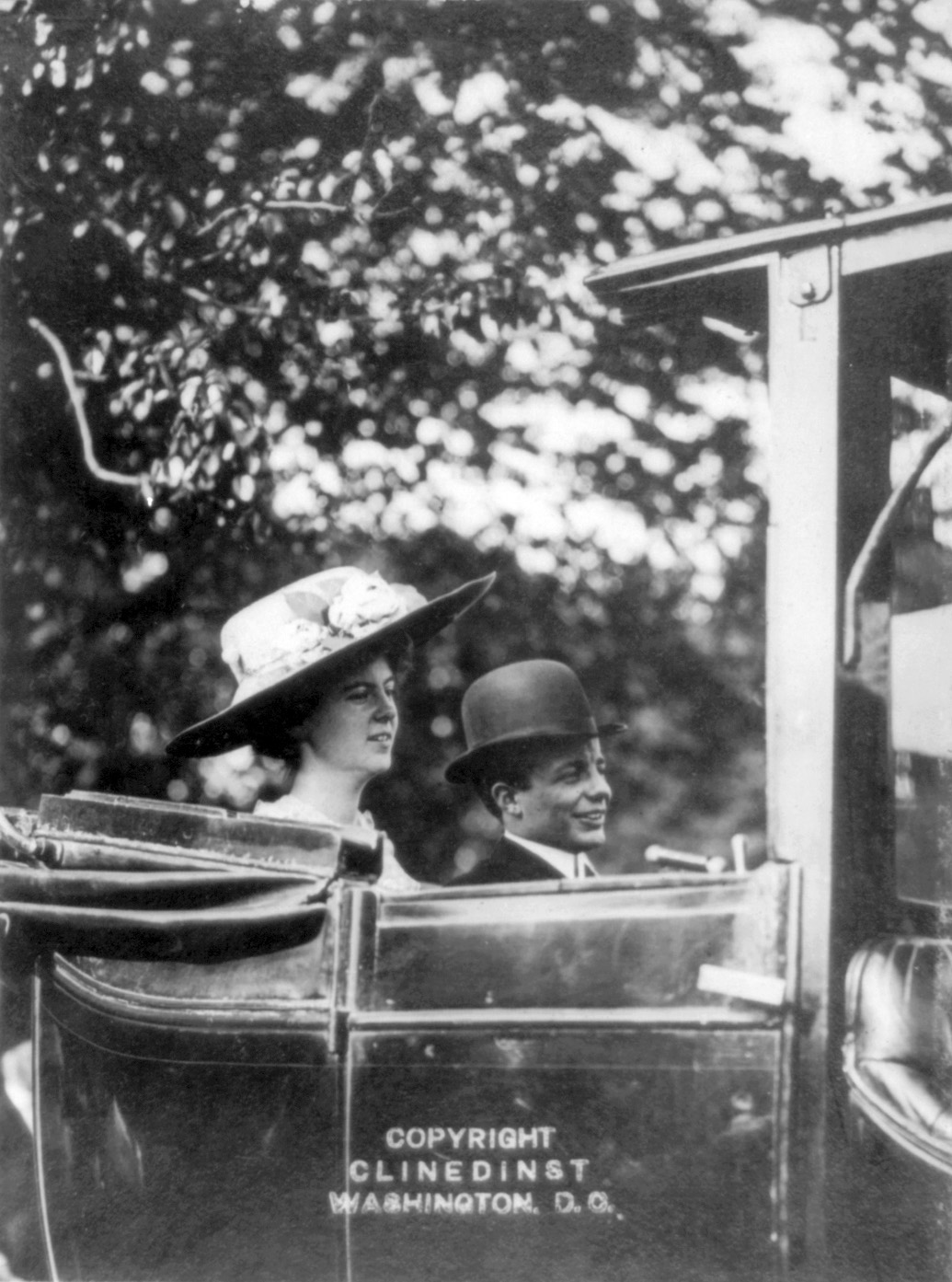 Betrothed couple Eleanor Butler Alexander (left) and Theodore Roosevelt, Jr. in an automobile